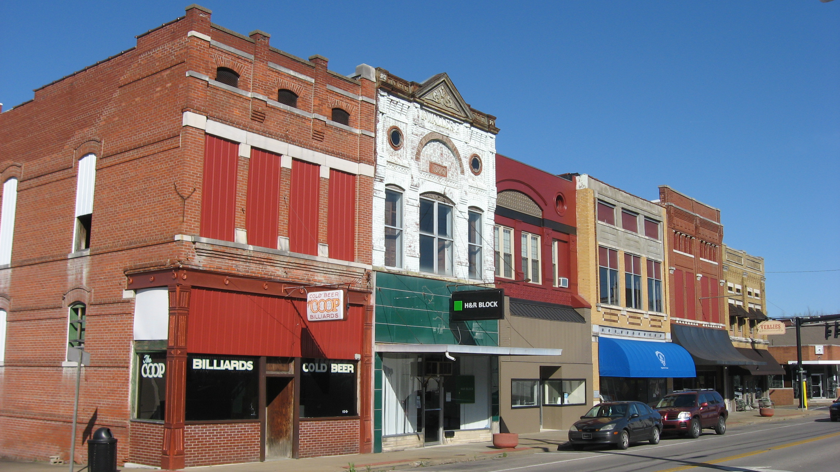 Buildings on the northern side of the 100 block of W. Main Street (Kentucky Route 56) in downtown Morganfield, Kentucky, United States. This block is part of the Morganfield Commercial District, a historic district that is listed on the National Register of Historic Places.